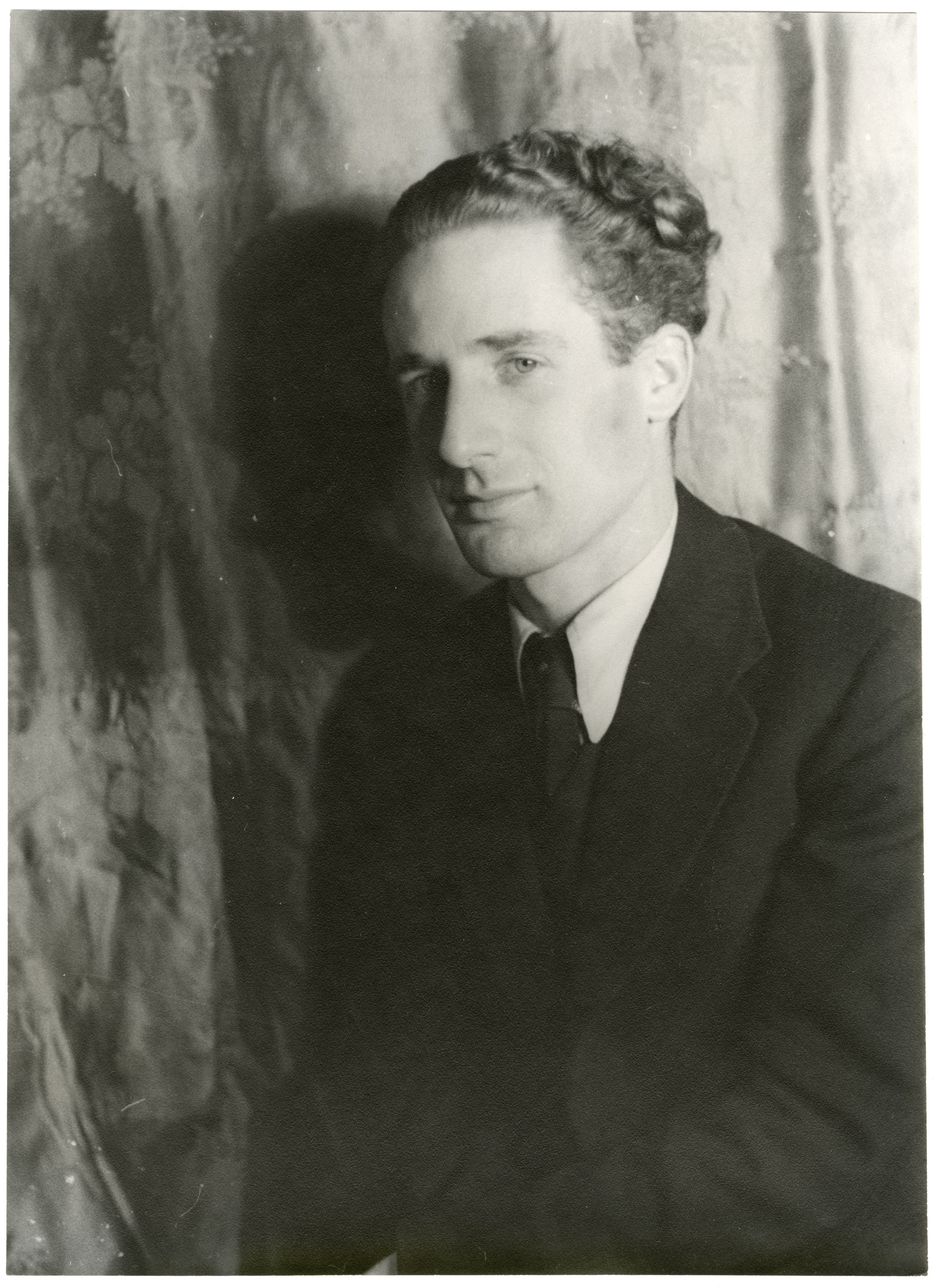 Title: Portrait of Kristians Tonny Abstract/medium: 1 photographic print : gelatin silver.